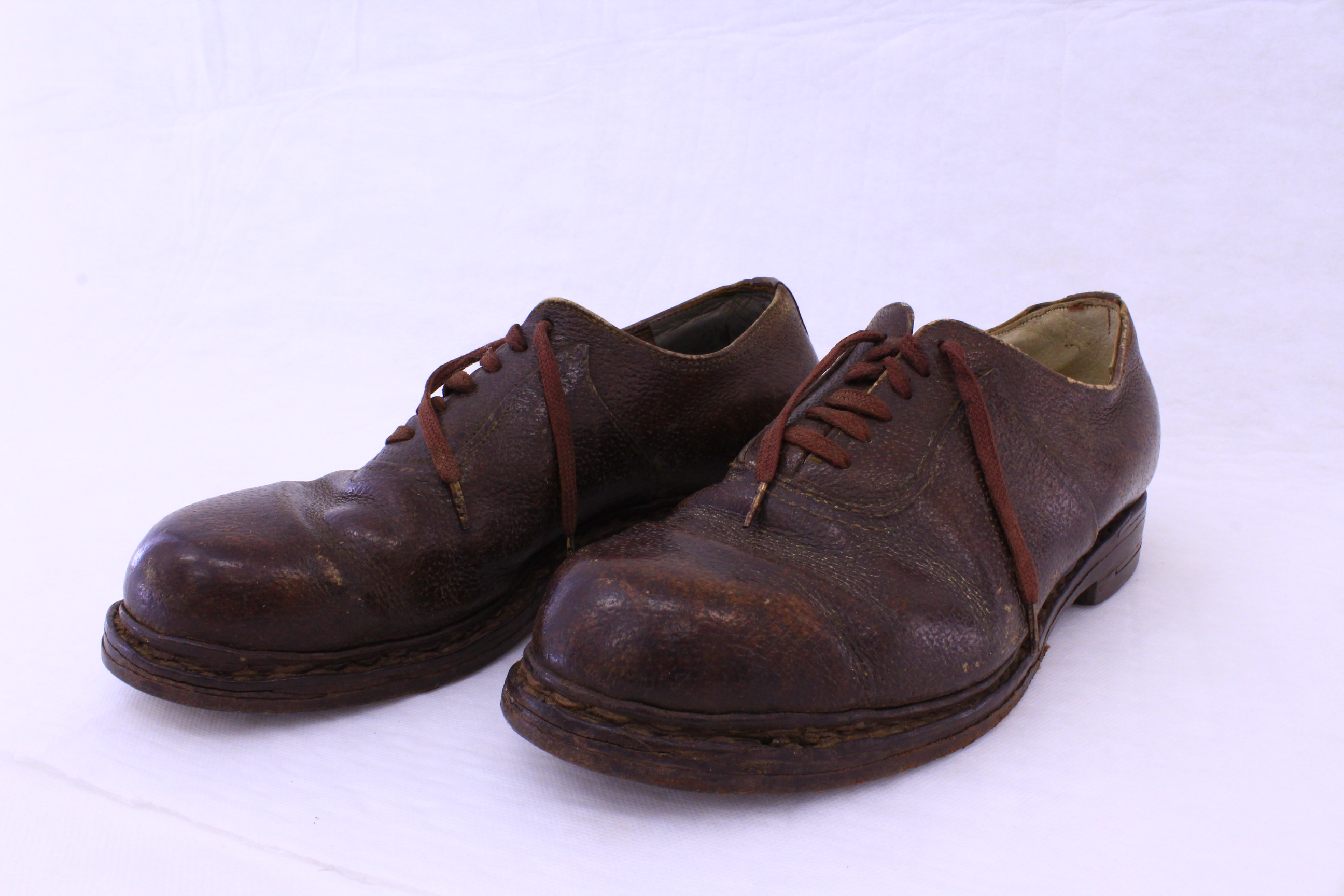 Brown leather shoes. Leather, metal, rubber, cotton. Germany, 1949. Donor: Eva Maria Augusta Boeckh Haesbish. Collection of the Immigration Museum of São Paulo. This pair of shoes was used by Horst Haebisch, the donor’s husband. According to her account, he has bought them in order to migrate to Brazil.